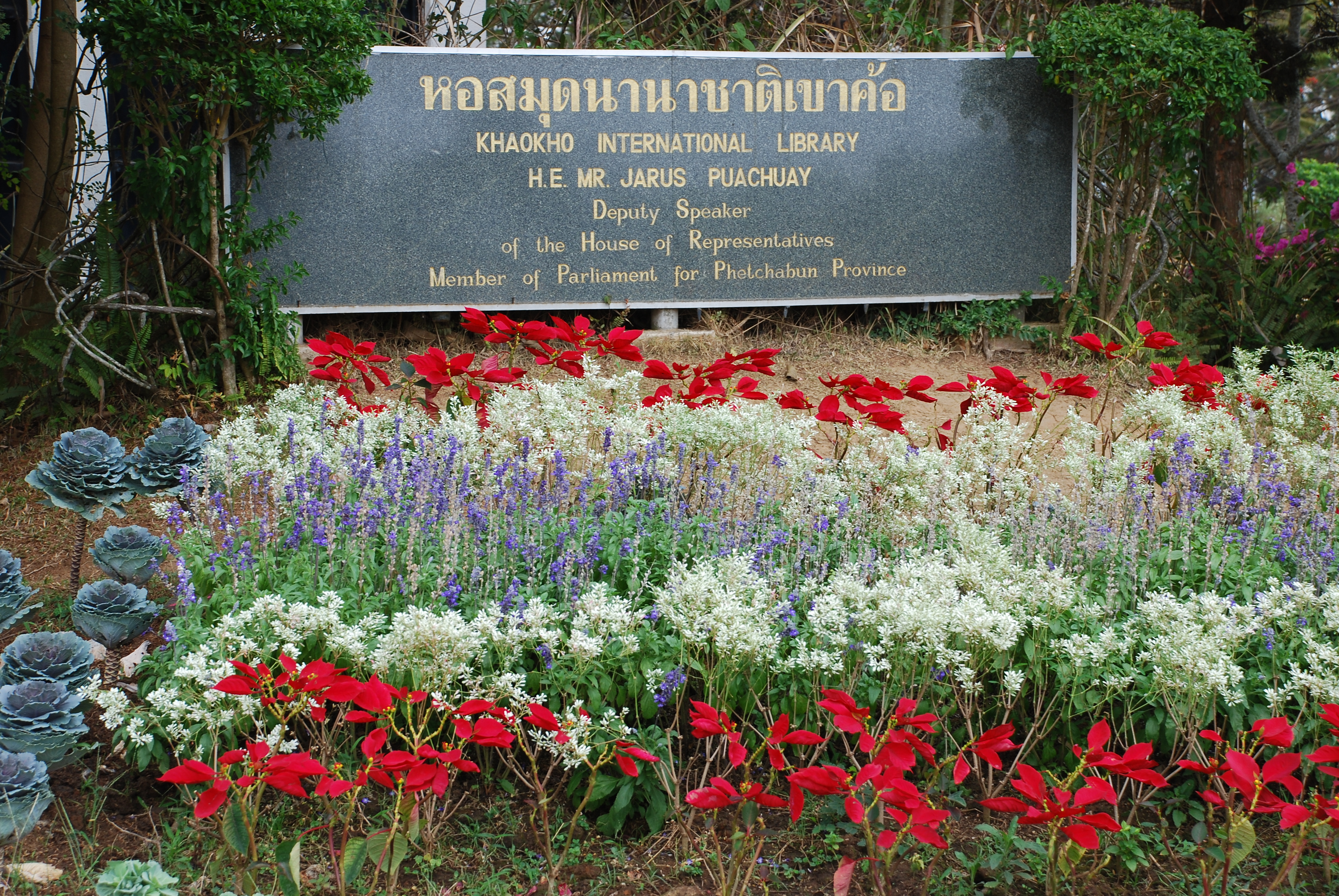 In Khao Kho there is an international library, situated in a lovely park with lots of colorfull flowers.